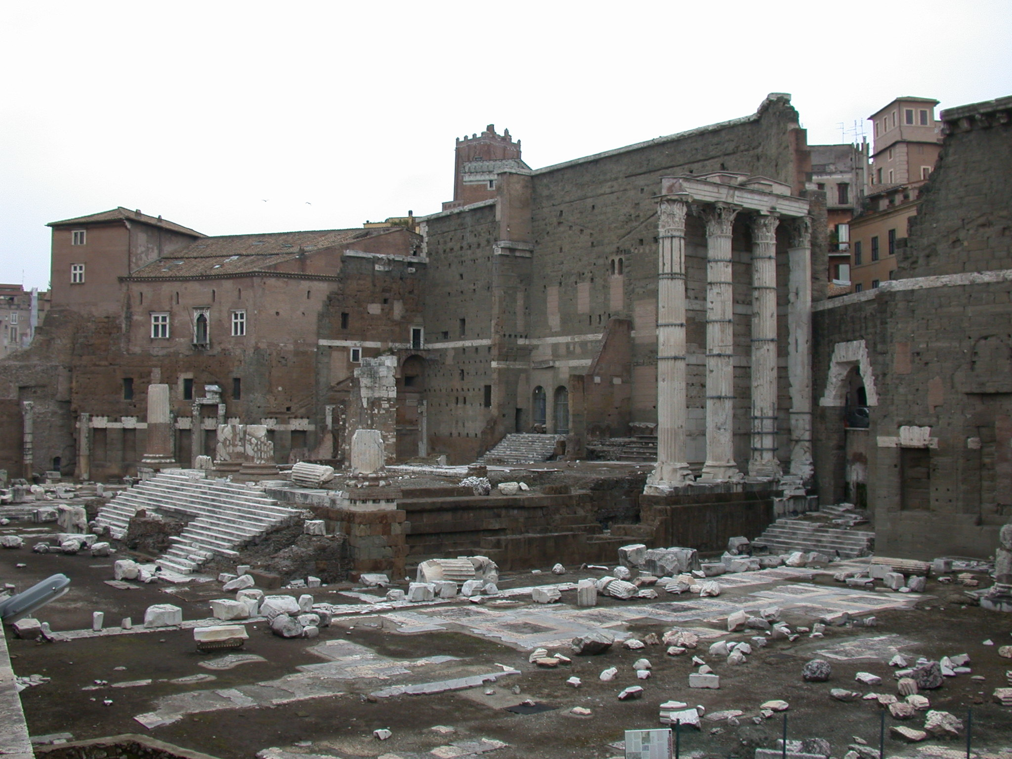 Description: Rome, Forum of Augustus